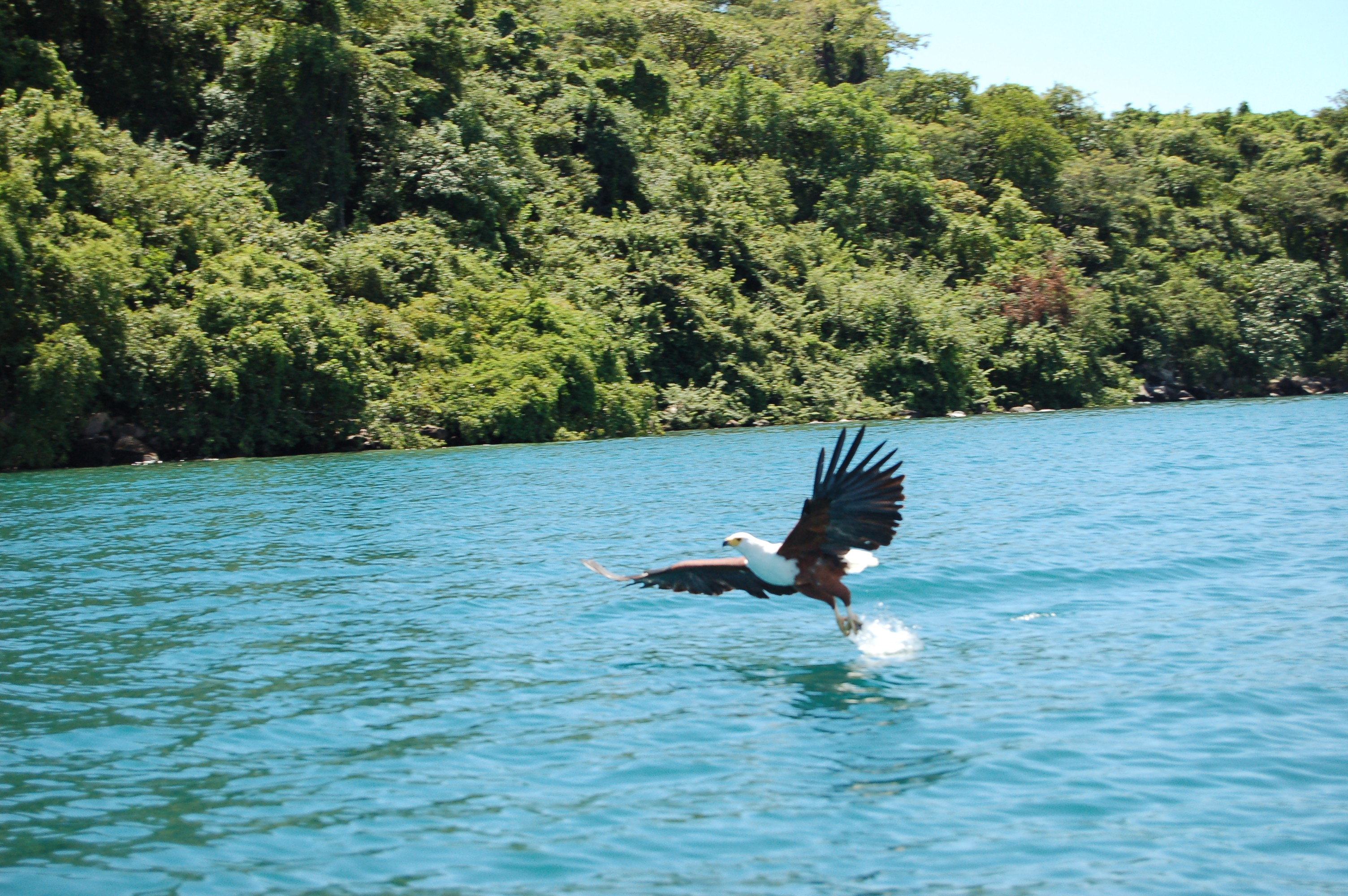 A fish eagle on Lake Malawi in Malawi